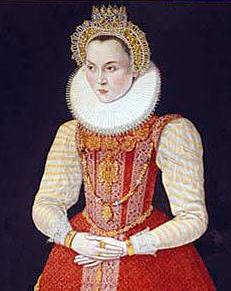 Princess Sofia Vasa (Gustavsdotter), daughter of Gustav I of Sweden, married to Magnus of Saxe-Lauenburg